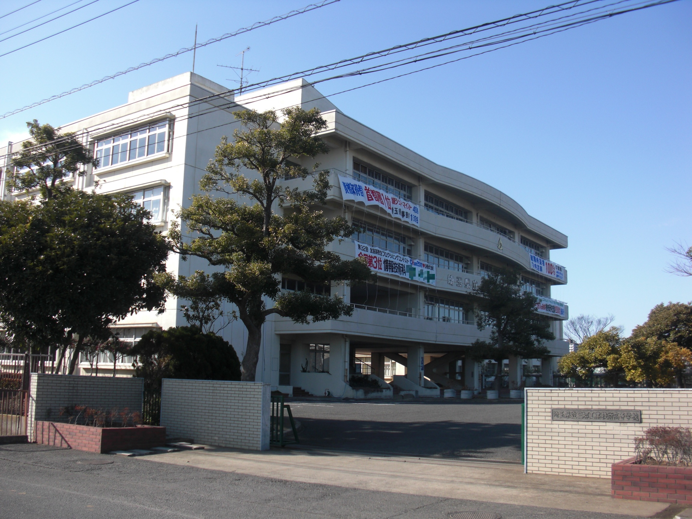 This is the Sitama prefectural Misato Technological High School in Misato city, Saitama, Japan.